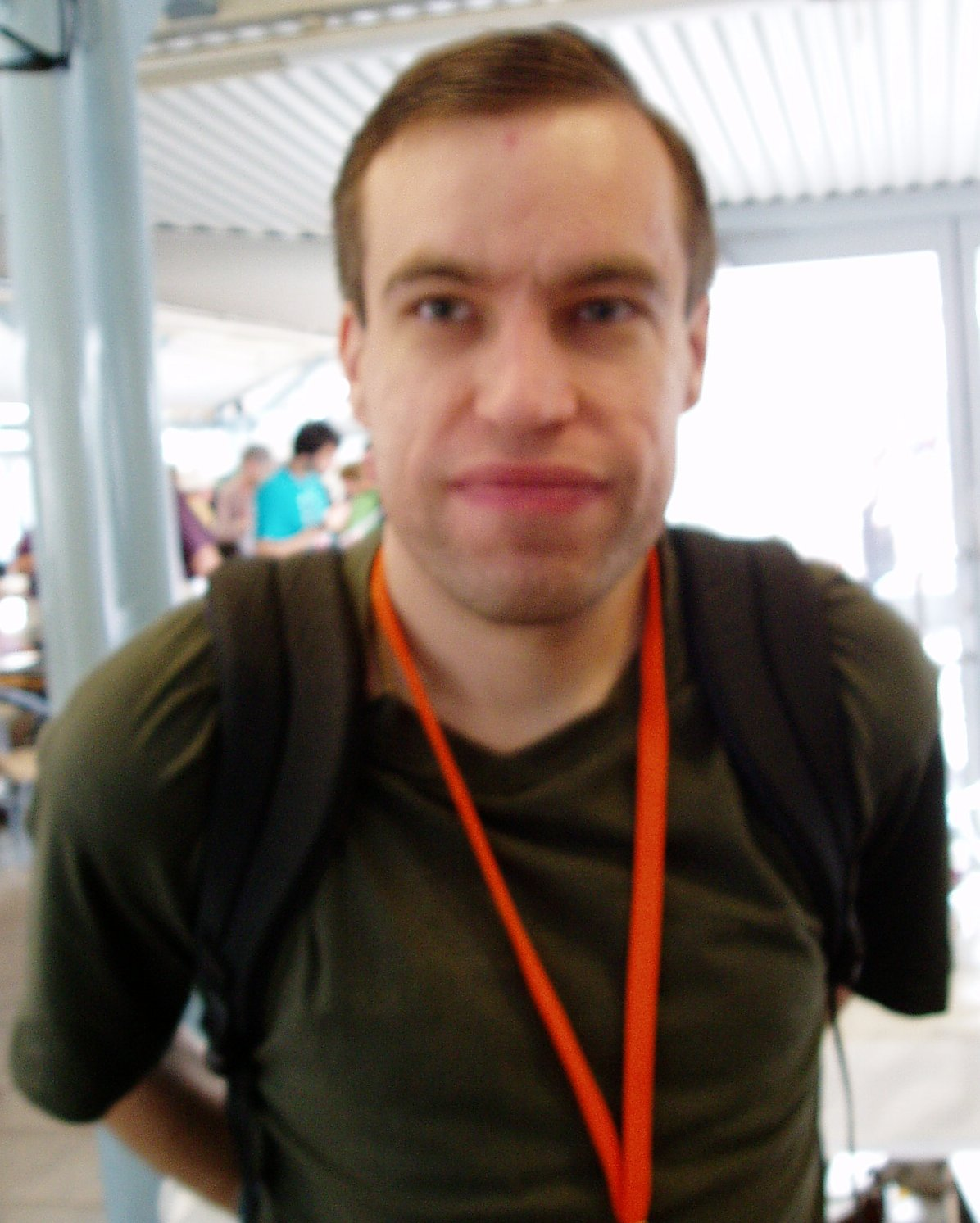 Anthony Towns